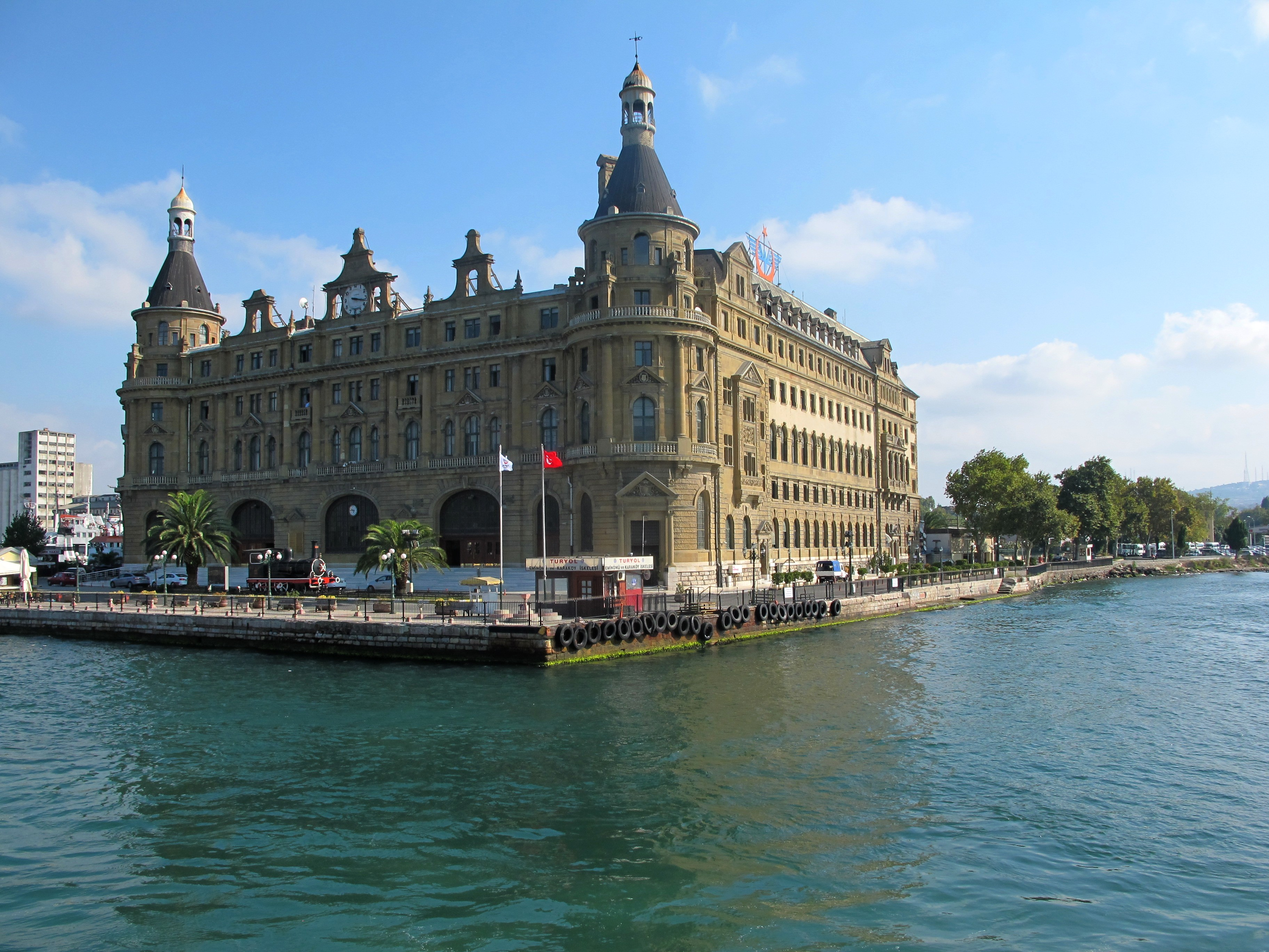 The View of Haydarpaşa Terminal in the Asian part of Istanbul